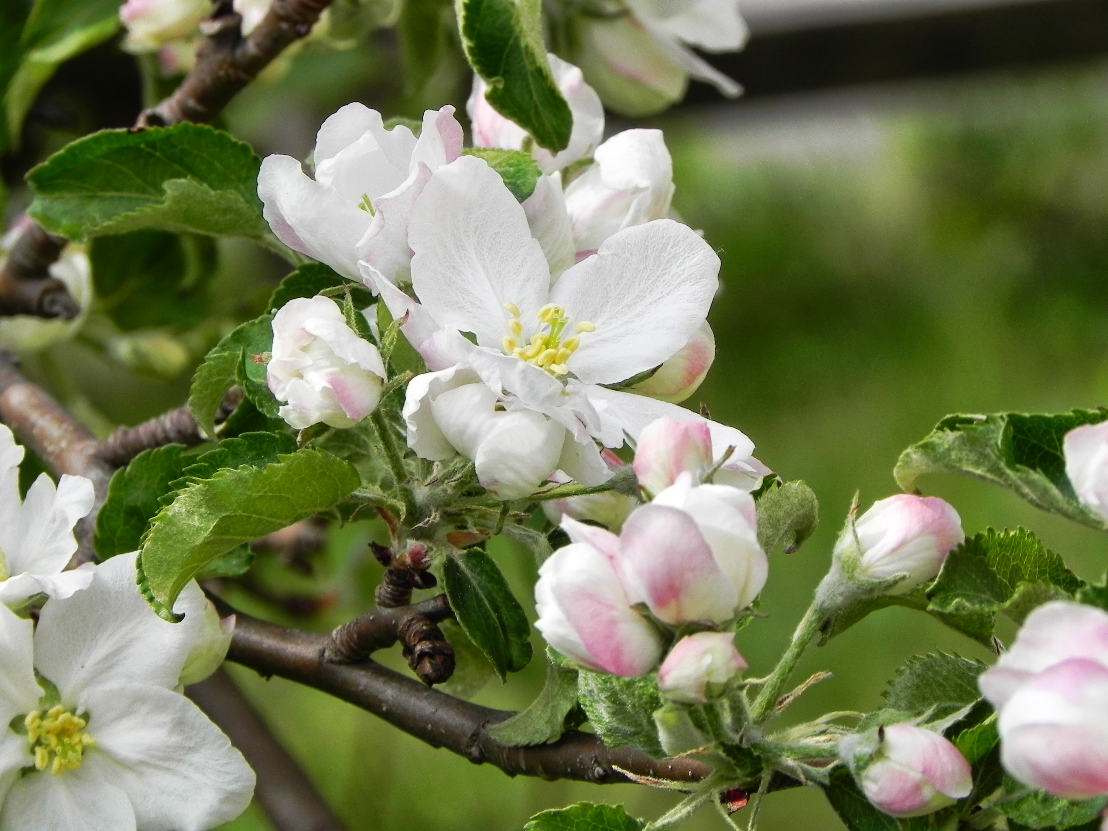 Belle de Boskoop apple flowers from Mölndal, Sweden